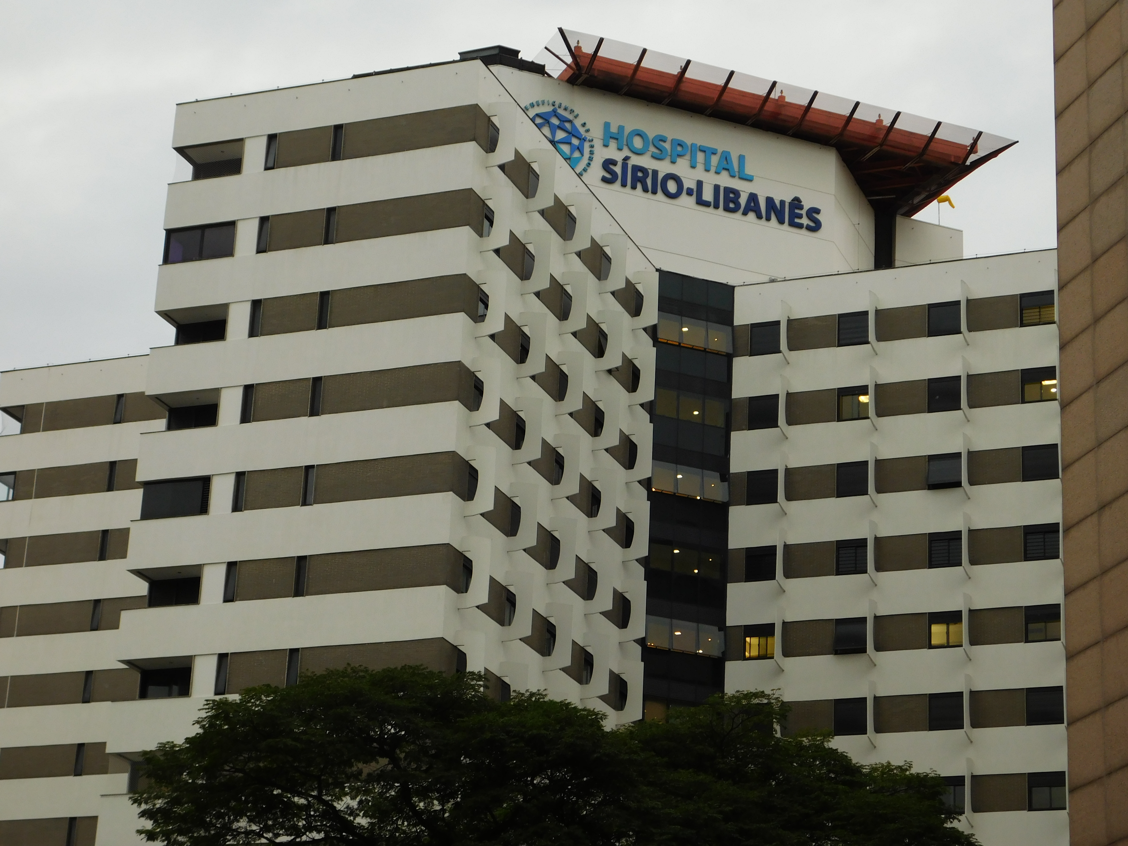 The Hospital Sírio-Libanês (Syrian-Lebanese Hospital) is one of the most important hospitals in Brazil and South America, located in the Bela Vista district, next to Paulista Avenue, central zone of São Paulo city, Brazil.